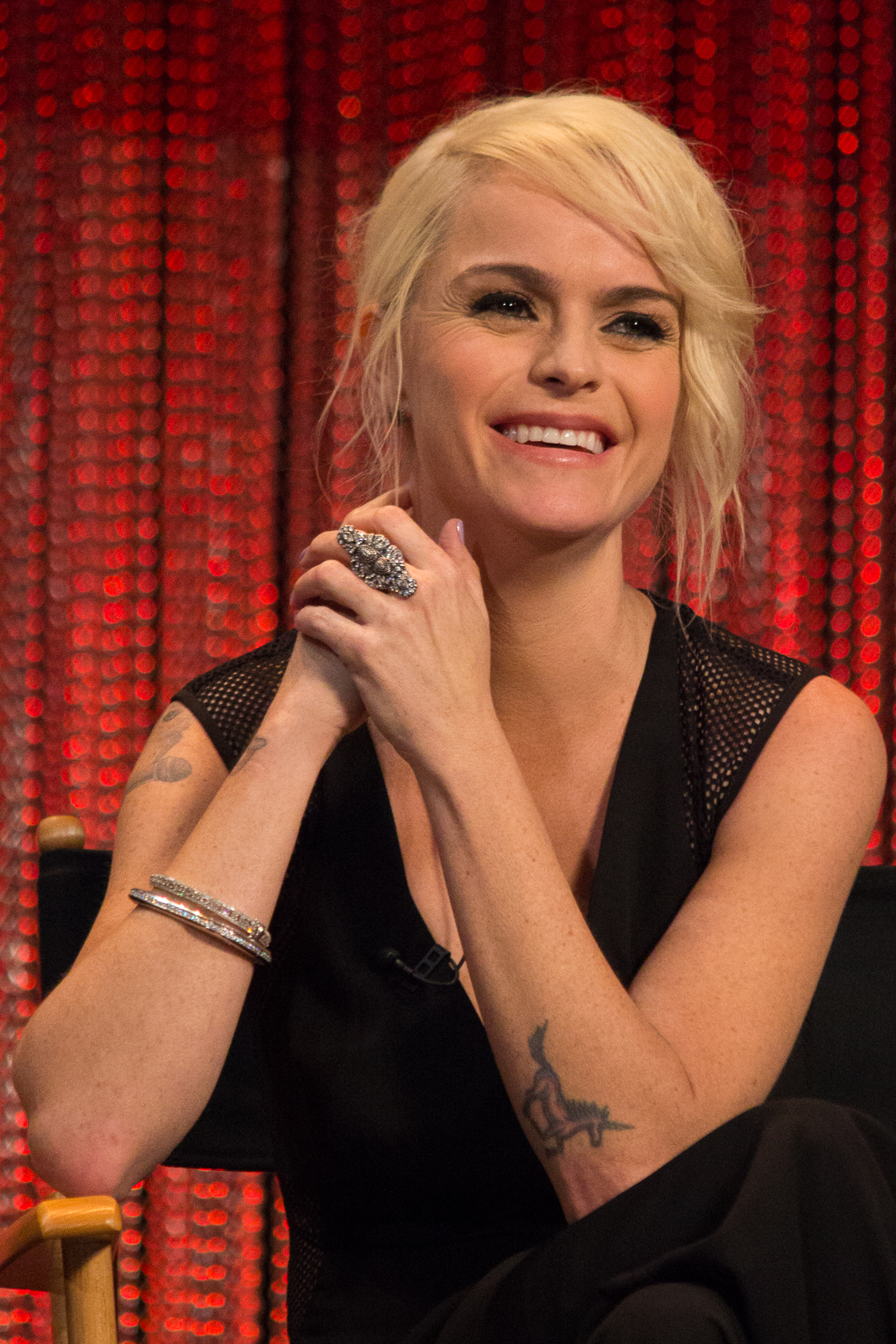 Actress Taryn Manning at The Paley Center For Media's PaleyFest 2014 Honoring "Orange Is The New Black"